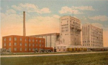 North Dakota State Mill in Grand Forks, North Dakota, 1915